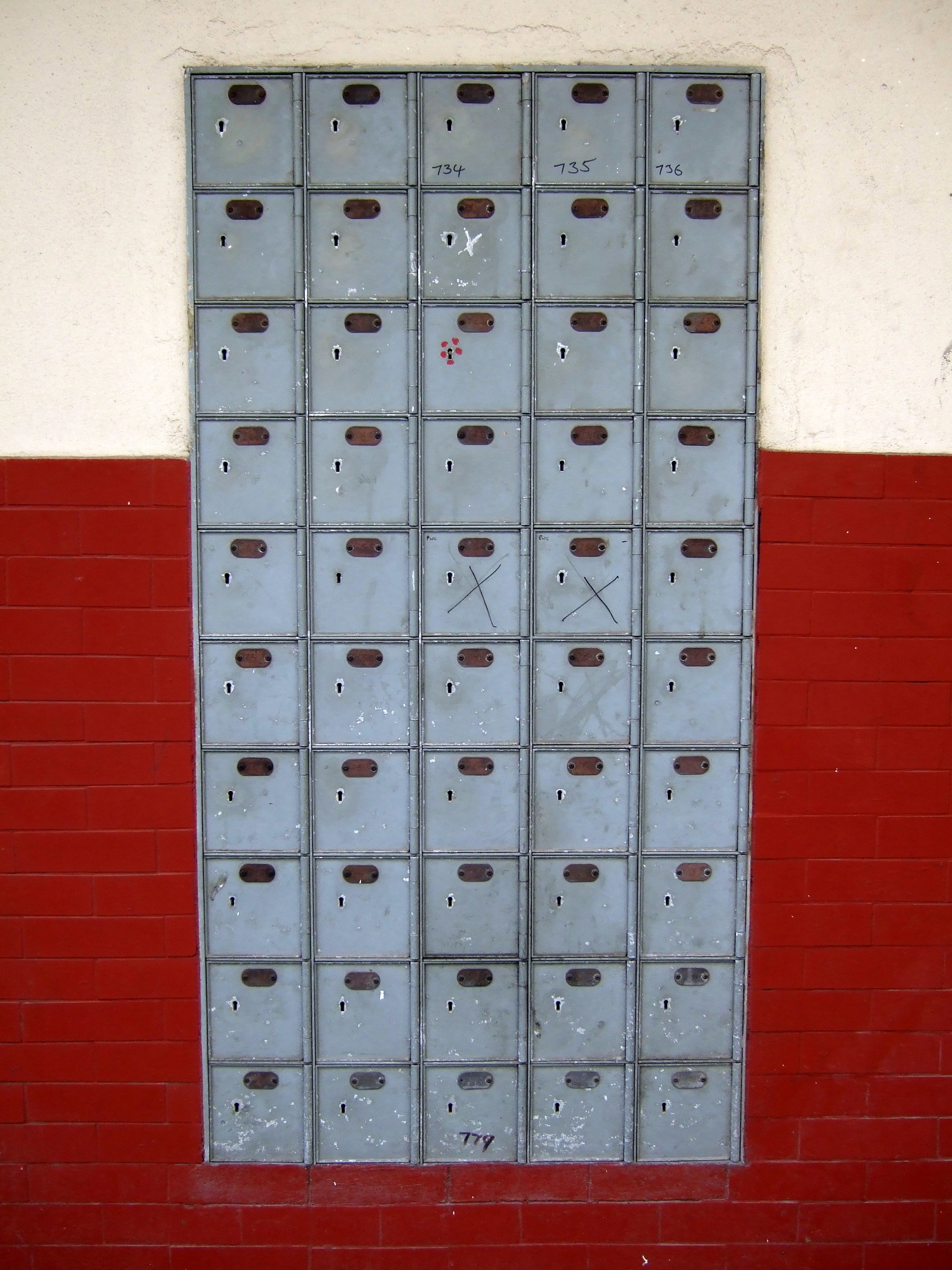 A set of PO boxes at the Royal Gibraltar Post Office in Main Street, Gibraltar.